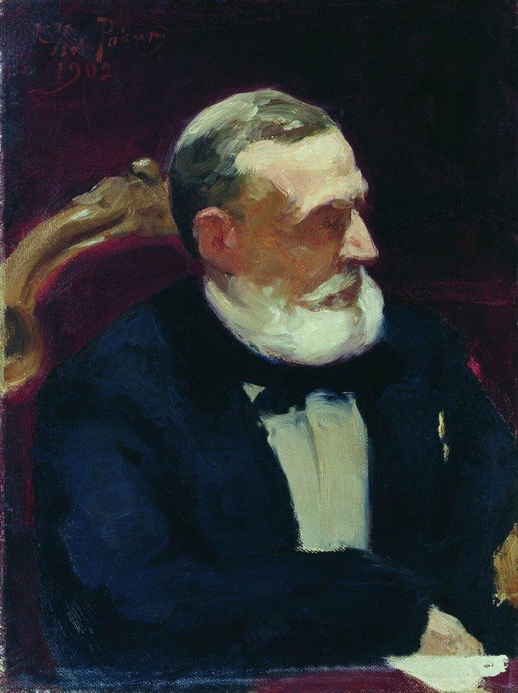 Portrait of member of State Council Ivan Ivanovich Shamshin. Study for the picture Formal Session of the State Council. Oil on canvas. 54 × 40 cm. Regional Museum of Fine Arts, Rostov-on-Don.